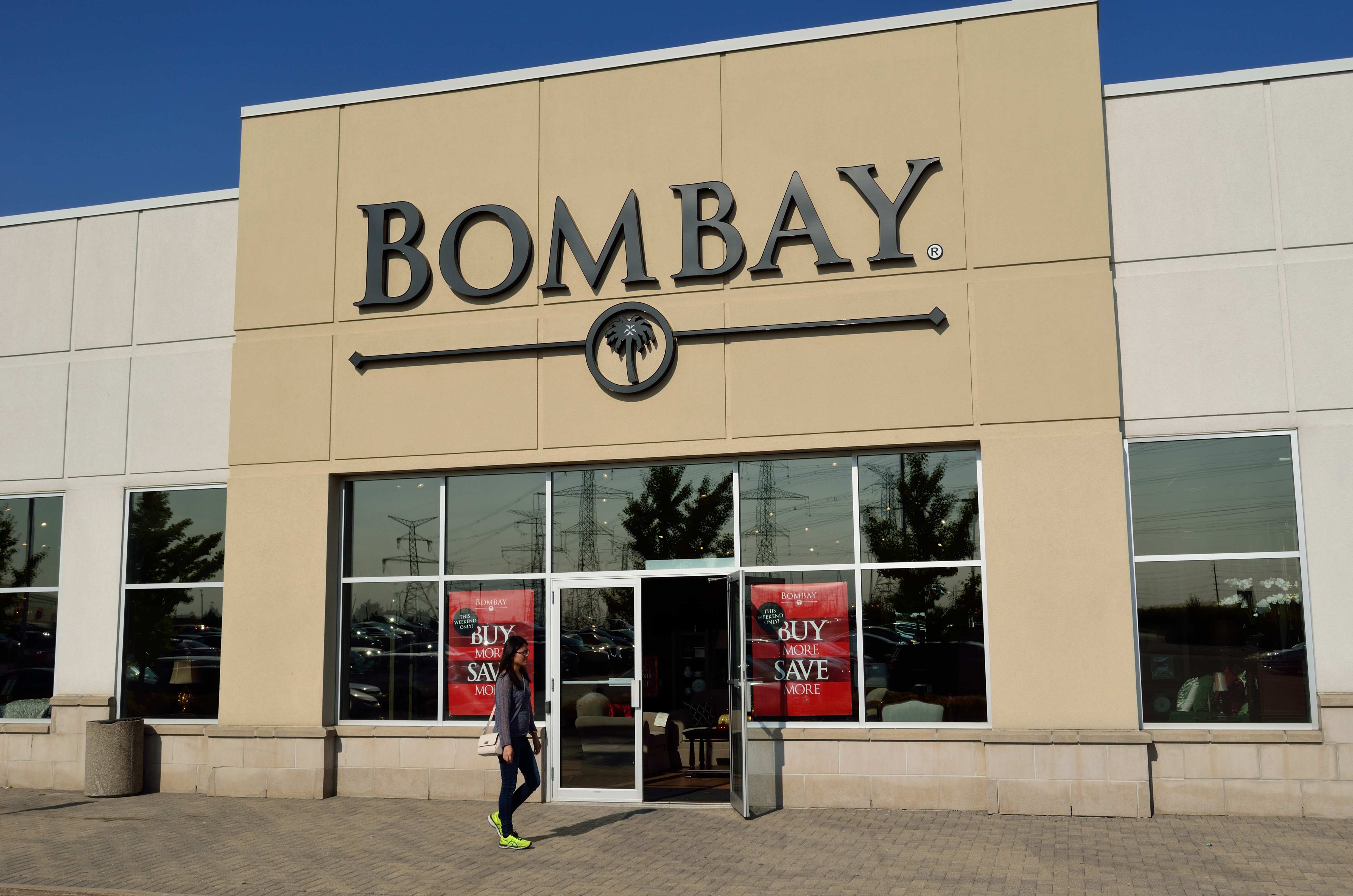 Bombay & Company - address: 295 High Tech Rd, Richmond Hill, ON L4B 0A3